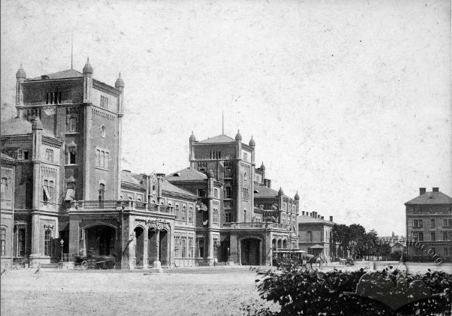 The first Lviv Rail Terminal.